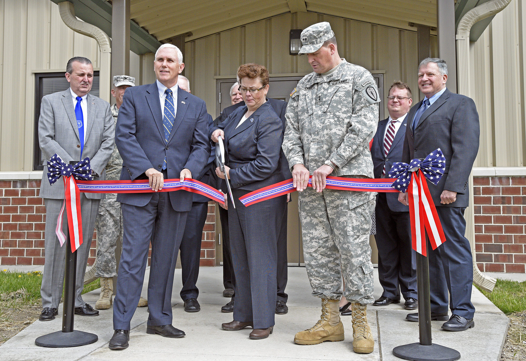 Dr. Ginny Creasman, Acting Director of the Richard L. Roudebush VA Medical Center, cuts the ceremonial ribbon as Indiana Governor Mike Pence (on her right) and Maj. Gen. Courtney P. Carr, Indiana National Guard Adjutant General (on her left) hold the ribbon during the Wakeman VA Clinic Dedication Ceremony at Camp Atterbury, Ind., on Wednesday, March 30. (Photo by Master Sgt. Brad Staggs, Atterbury-Muscatatuck Public Affairs)